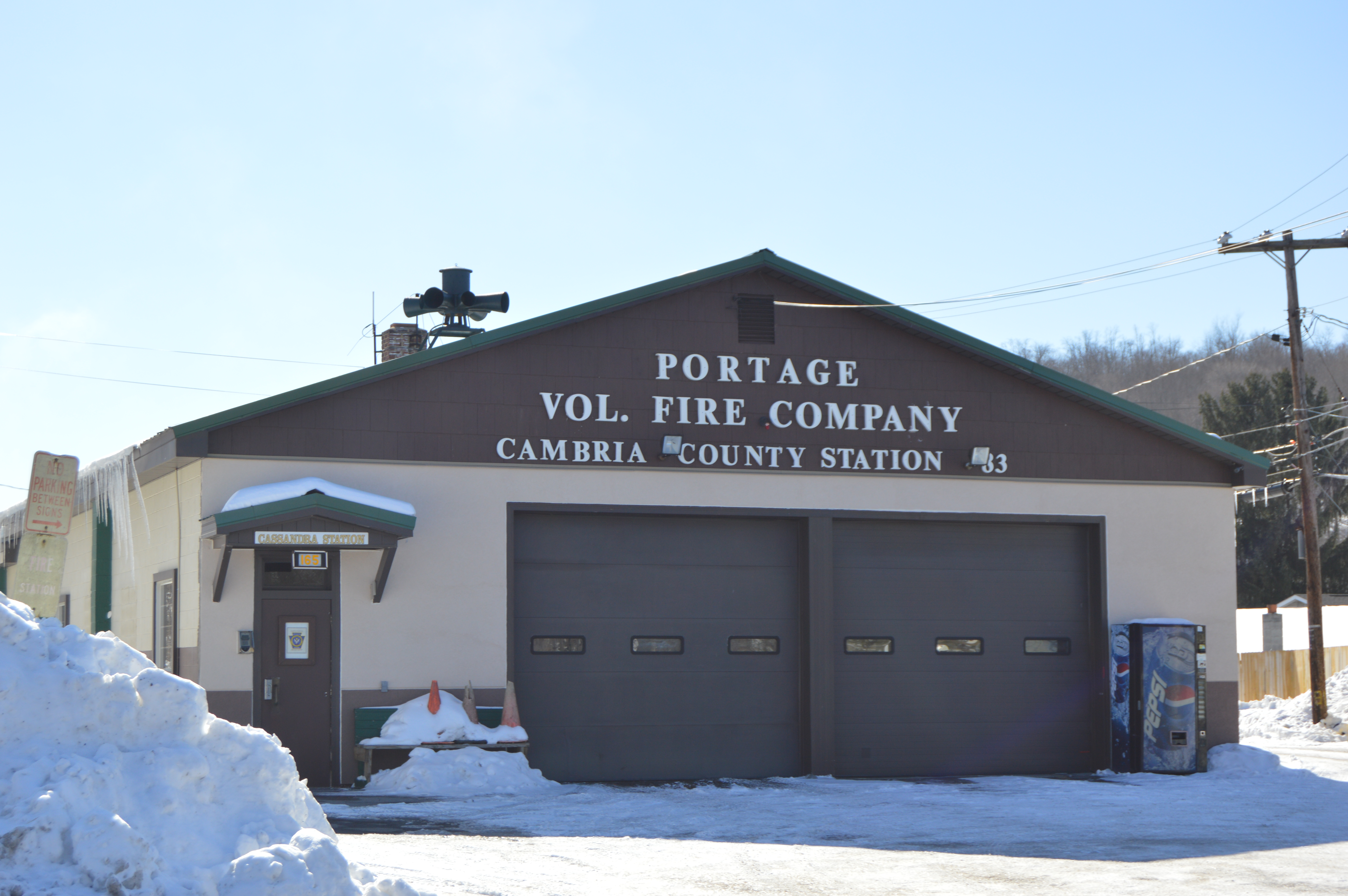 Front and eastern side of the Portage Volunteer Fire Company fire hall, located on Main Street in Cassandra, Pennsylvania, United States.